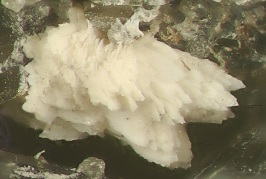 Lanthanite-(Ce) Locality: Poudrette quarry (Demix quarry; Uni-Mix quarry; Desourdy quarry; Carrière Mont Saint-Hilaire), Mont Saint-Hilaire, La Vallée-du-Richelieu RCM, Montérégie, Québec, Canada FOV 3.4 x 2.3 mm. Via Jean-Pierre Beckerich. MOB coll. Moderate REE absorption lines.